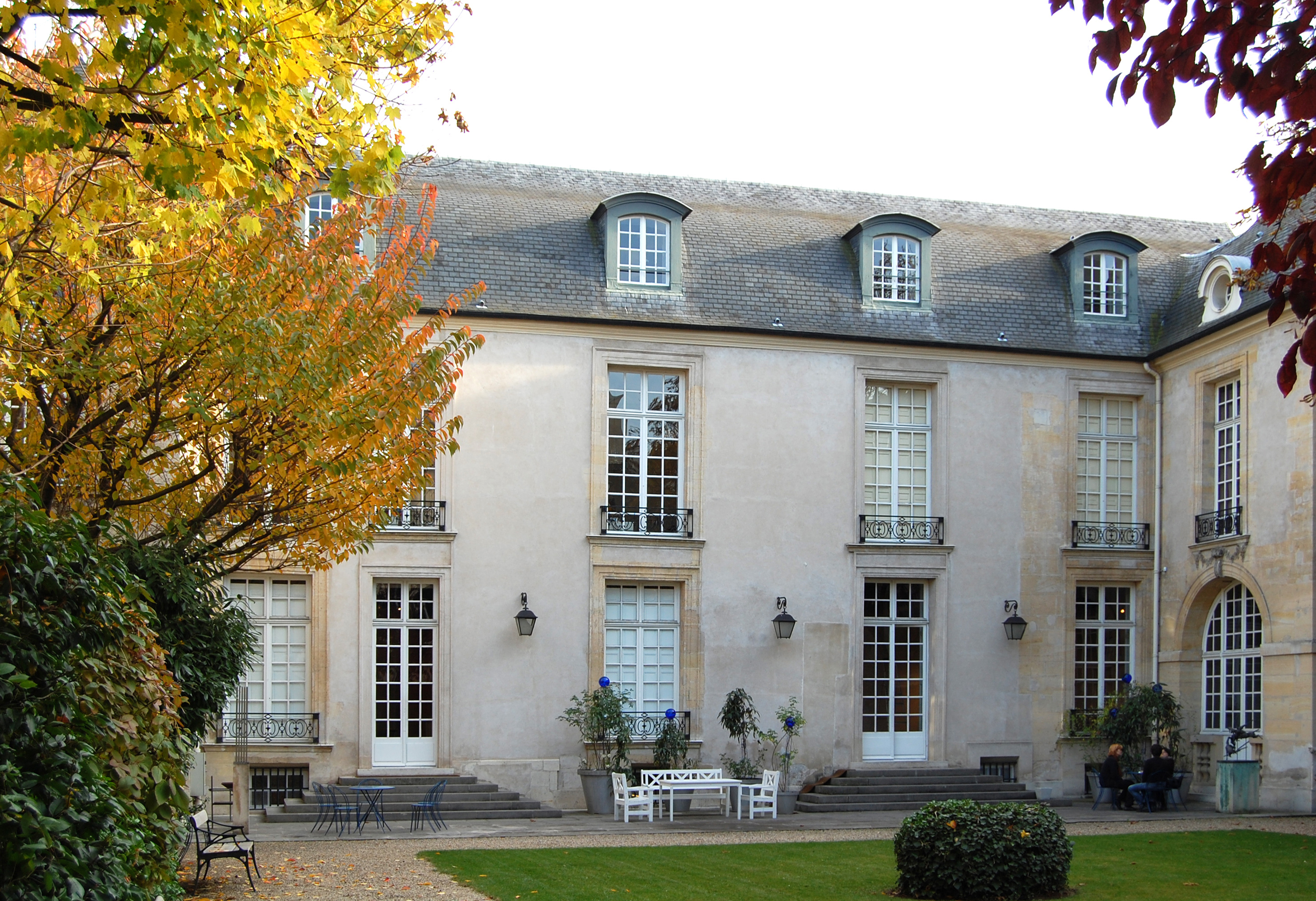 Courtyard garden and Hotel de Marle next street Payenne, Paris, France